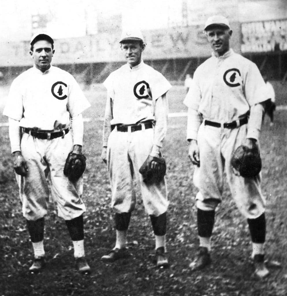 Baseball players Joe Tinker (left), Johnny Evers (center), and Frank Chance (right)